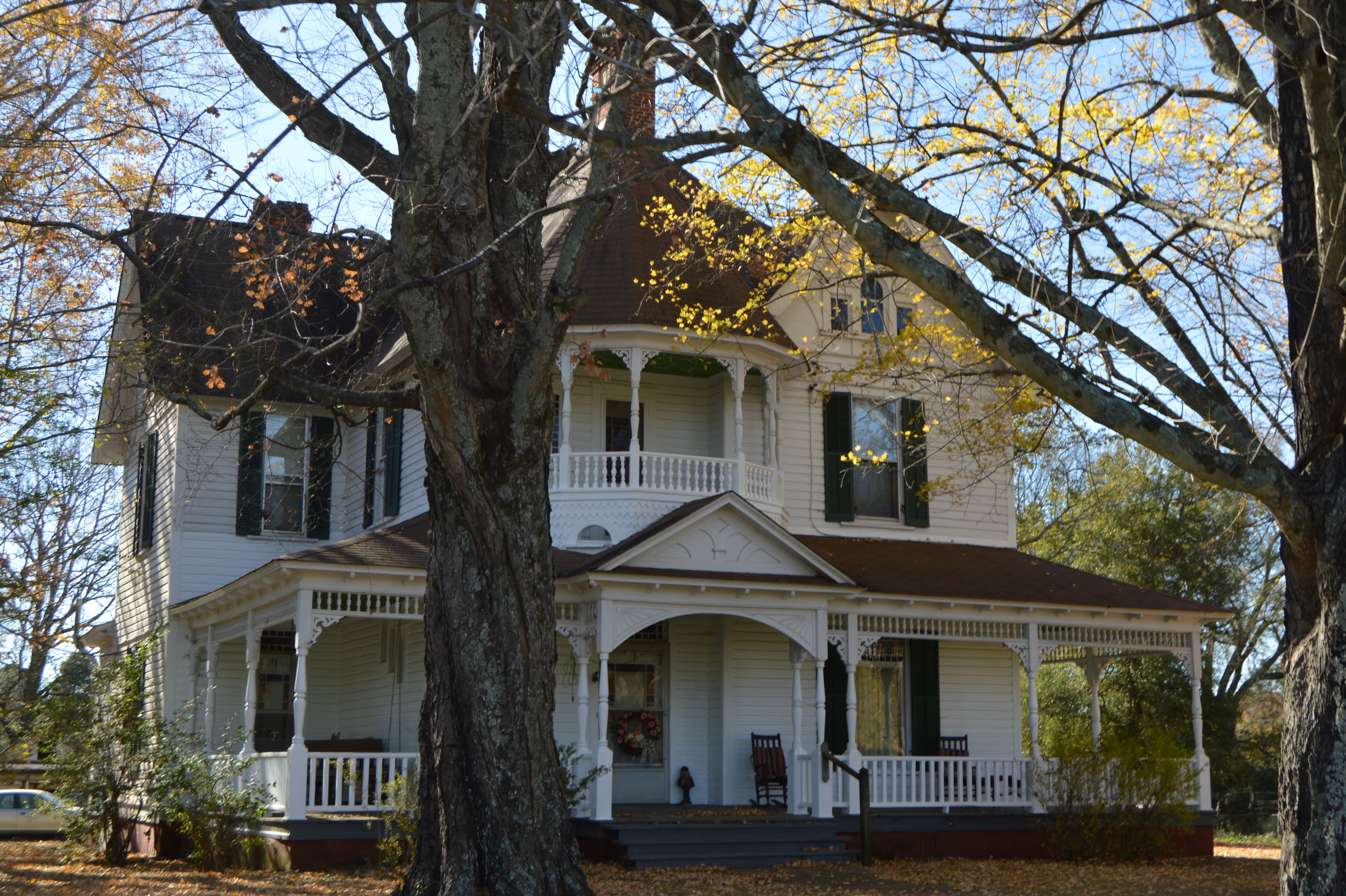 Front of the A. P. Terry House, located at 601 Womack Street in Pittsboro, North Carolina, United States. Built in 1900, it is listed on the National Register of Historic Places.